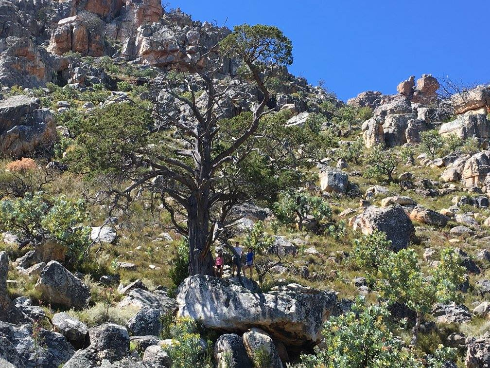 Widdringtonia wallichii - Cederberg, South Africa